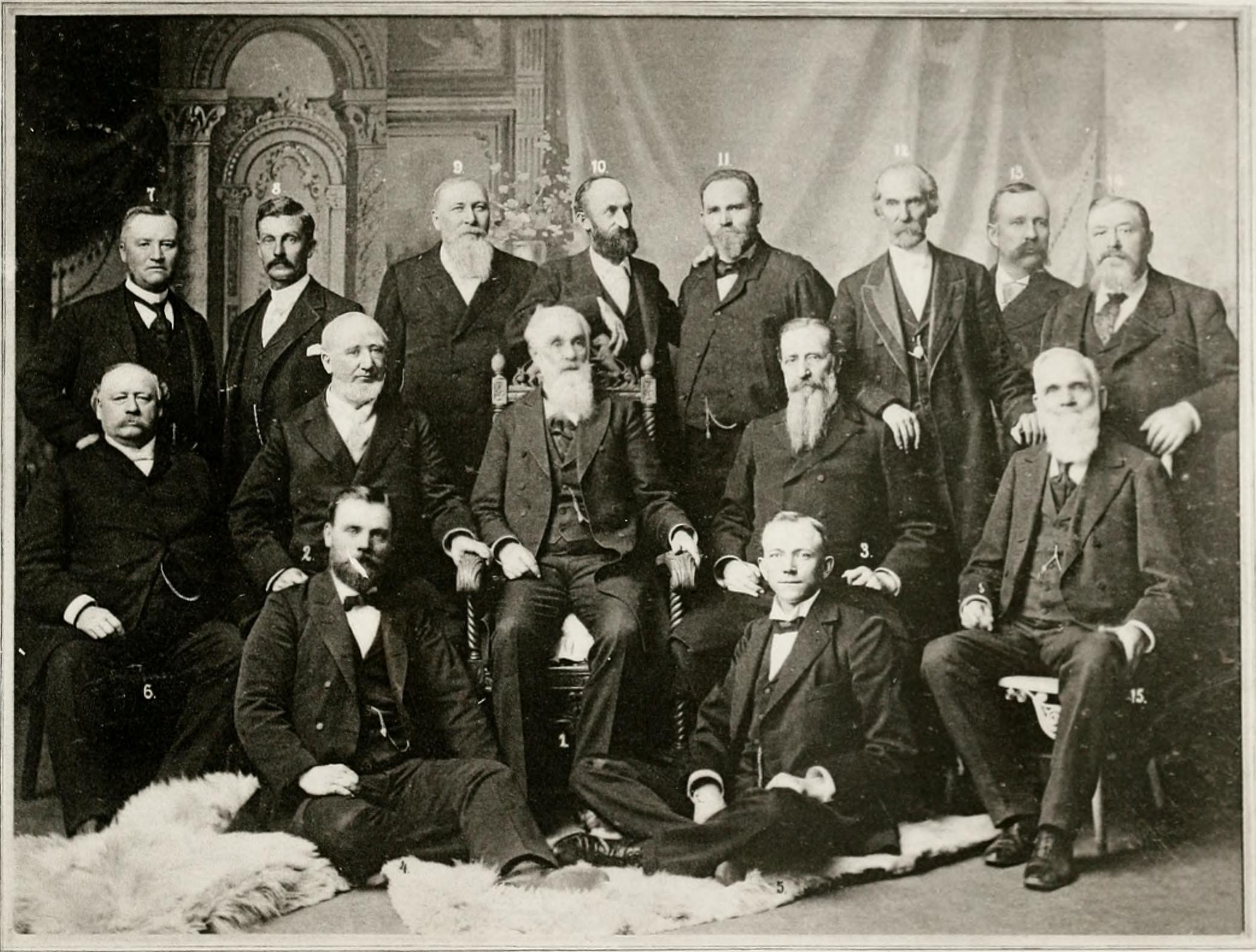 Title: Pictorial reflex of Salt Lake City and vicinity: including letter-press description and illustrations of public edifices, hotels, business blocks, churches, Indians, bathing resorts, etc., and a variety of information, valuable for the tourist or resident, from reliable sources Year: 1900 (1900s) Authors: Savage, Charles Roscoe 1832-1909 Subjects: Publisher: Salt Lake City, Utah: published by C.R. Savage, Art Bazaar, c1900 Text Appearing Before Image: WILFORD WOODRUFF. PRESIDENTS OF THE MORMON CHURCH. LORENZO SNOW 19 Text Appearing After Image: 1. PRES. LORENZO SNOW. 2. GEORGE Q. CANNON. 3. JOSEPH F. SMITH. 4. MATHIAS H COWLEY. 5. A. OWEN WOODRUFF. 9. 6. BRIGHAM YOUNG 10. 7. ANTHON H. LUND. 11. 8. JOHN W. TAYLOR. 12. JOHN HENRY SMITHHEBER J GRANT. FRANCIS M LYMAN.GEORGE TEASDALE. 13. FUDGER CLAWSON. -14. MARRINER W. MERRILL. 15. F. D. RICHARDS. FIRST PRESIDENCY AND TWELVE APOSTLES OF THE CHURCH OF JESUS CHRIST OF LATTER-DAY SAINTS. 20